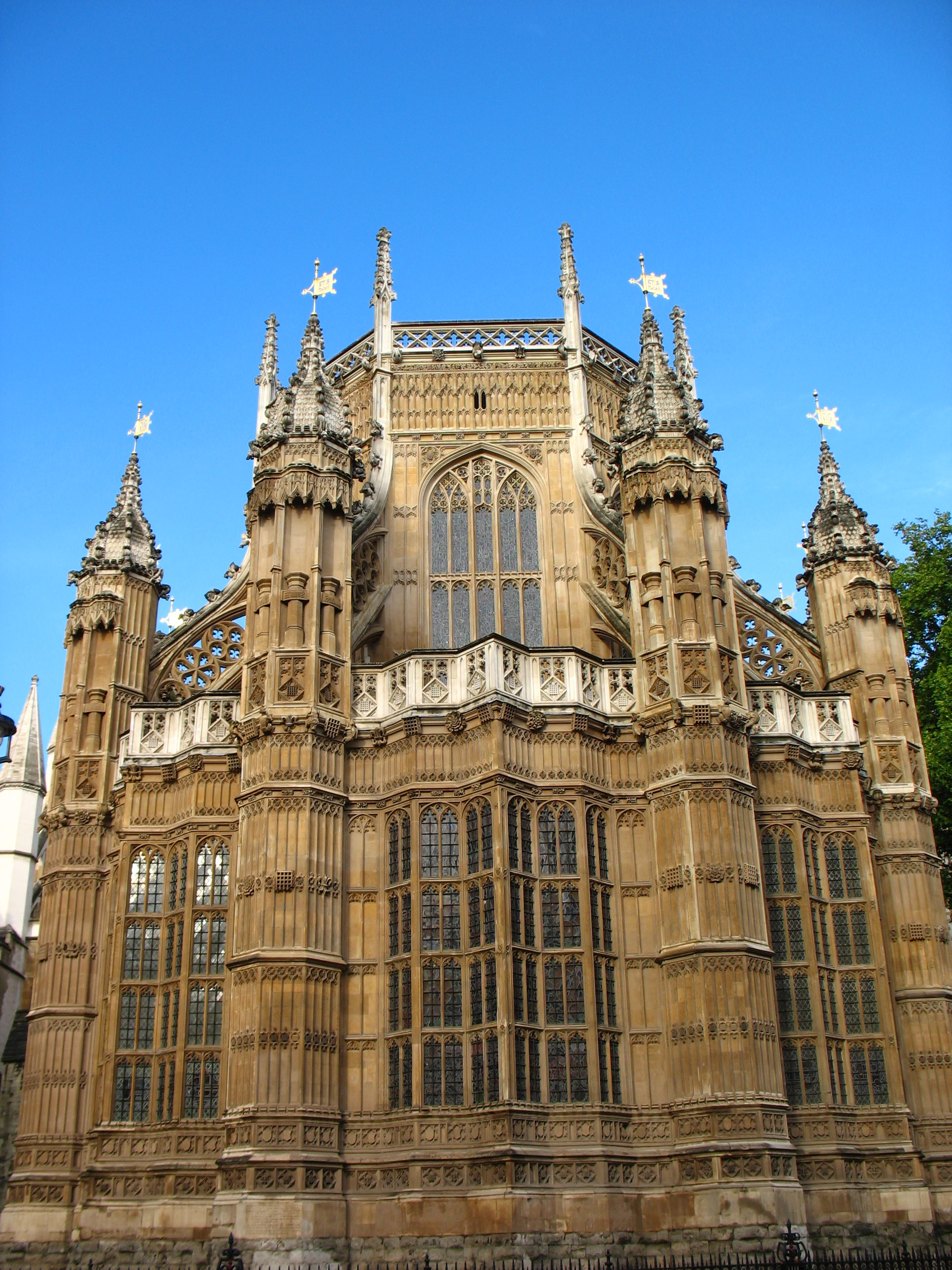 Westminster Abbey, Henry VII Lady Chapel